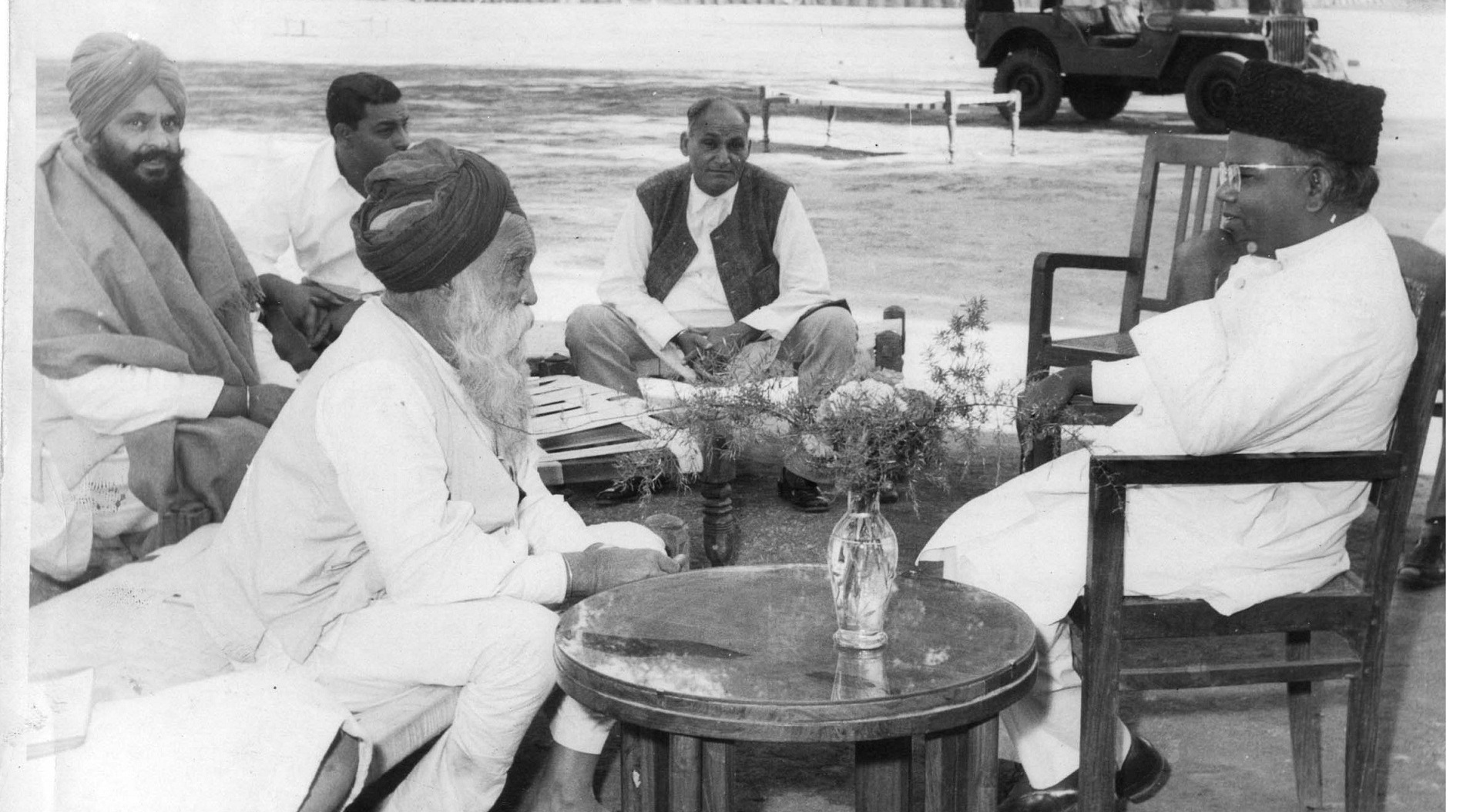 Sardar Master Tara Sing with B.Sjyam Sunder